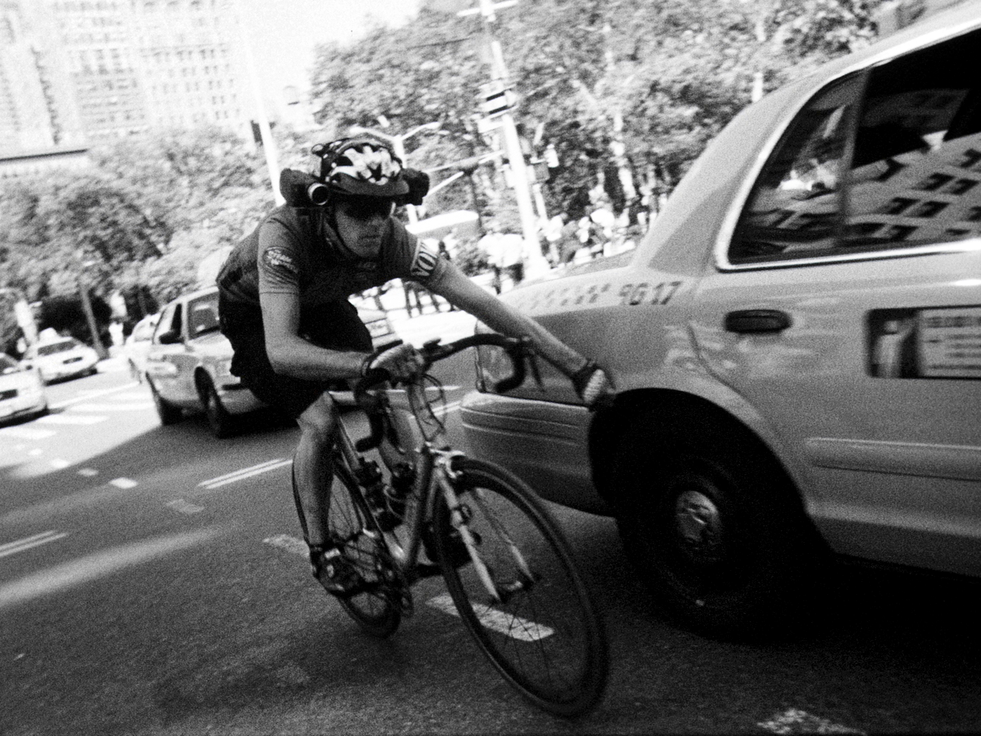 Lucas Brunelle catching a ride on a Taxi in New York City